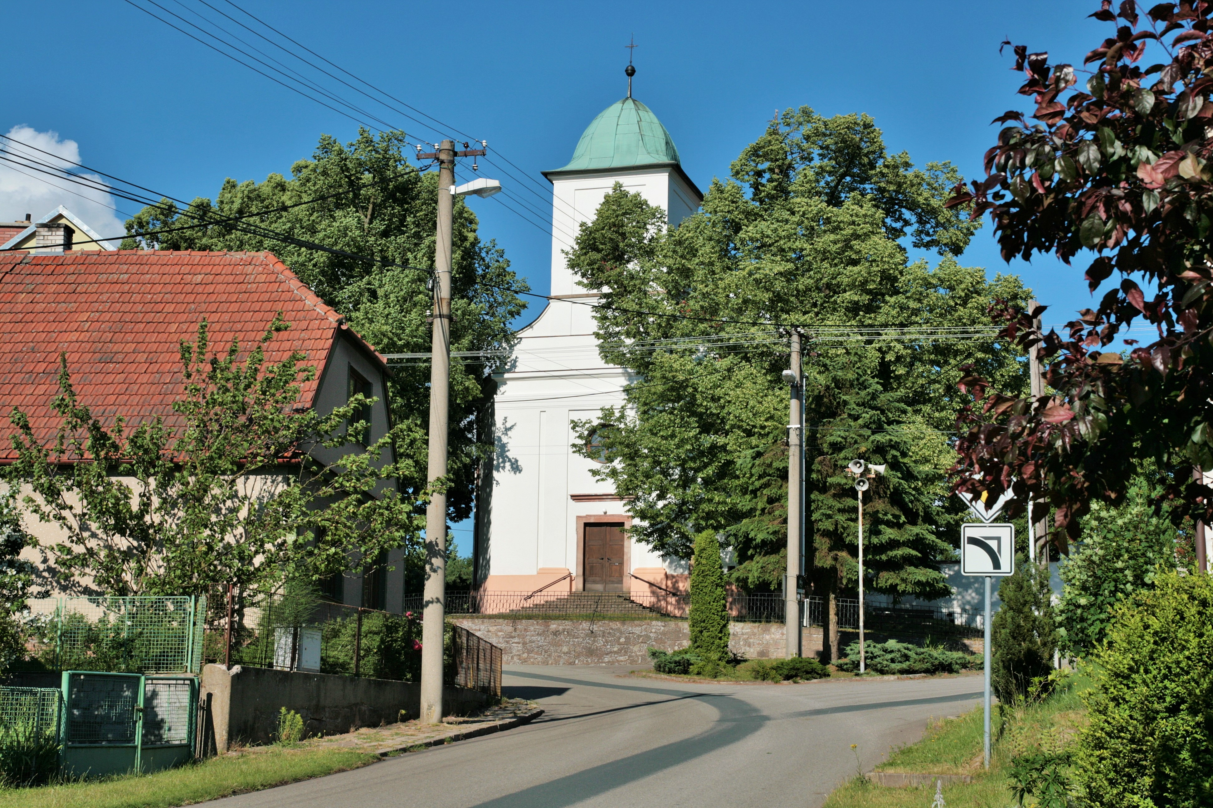 Unín, Brno-Country District, Czech Republic. Church of Saints Peter and Paul at the village green.